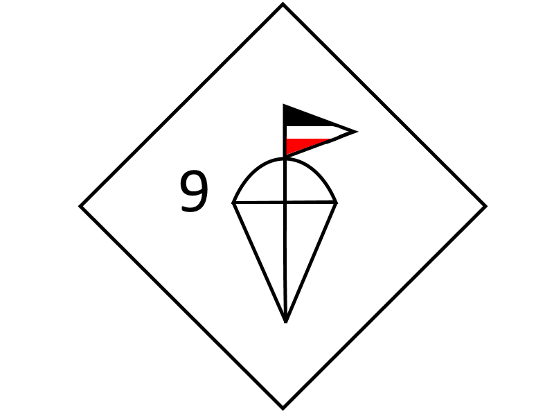 9. Fallschirm-Jäger-Division, German Army, World War II